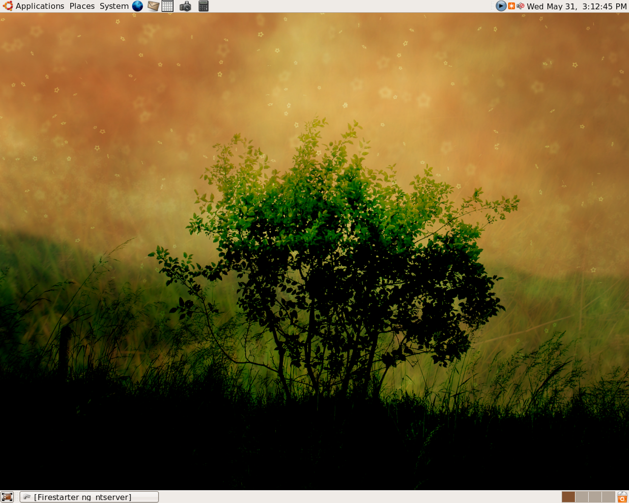 A screenshot of Ubuntu Linux Desktop, v6.06LTS.